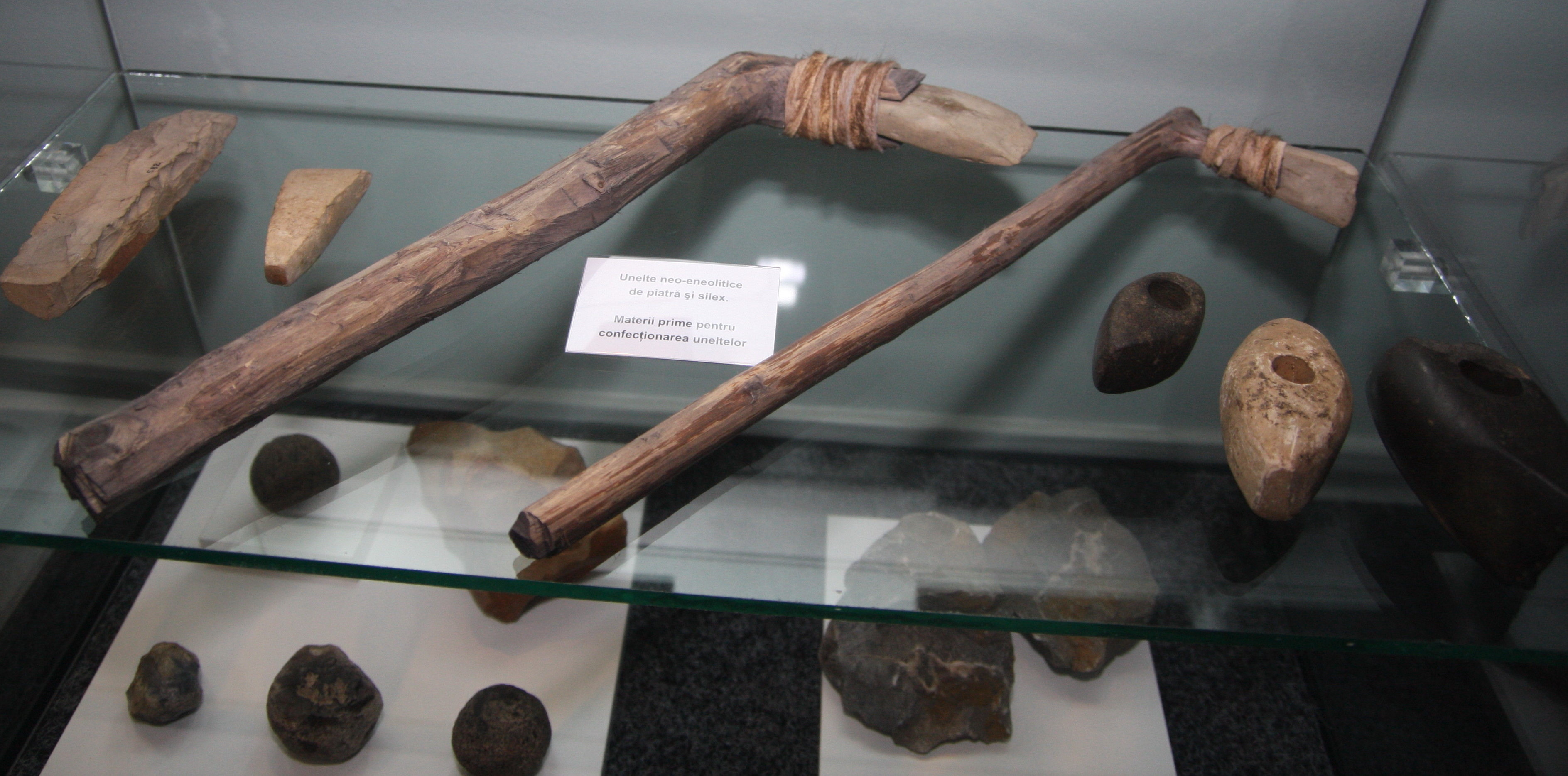 Cucuteni Tools